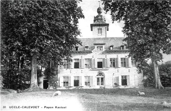 Stalle Castle in Uccle before the removal of the bulb in 1967